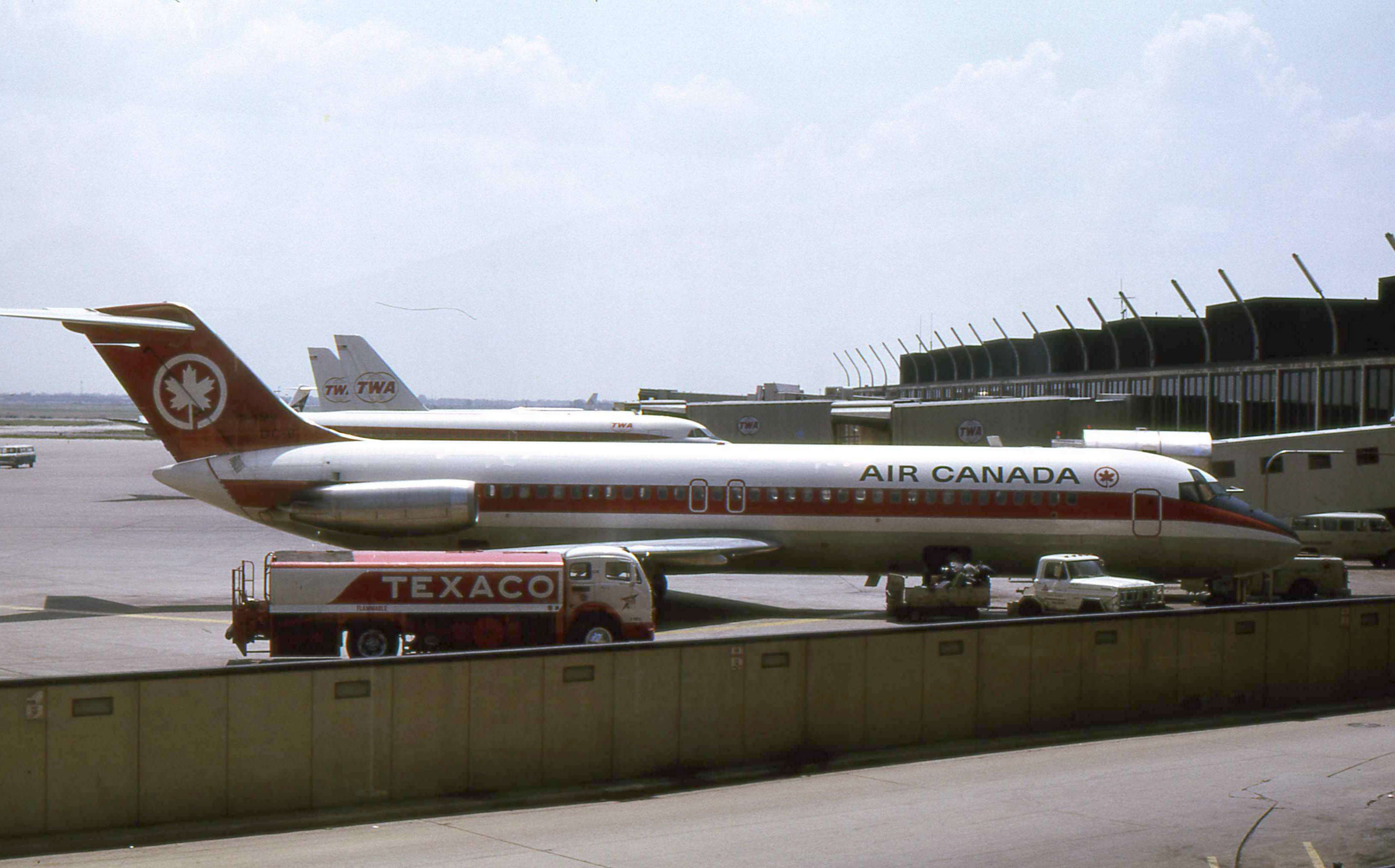 Canada, Air Canada McDonnell Douglas DC-9-32 C-FTMV, c/n 47557/661, first flight in 1972-04-07. Delivered to Air Canada in 1972-05-17. Withdrawn from use in January 2002 and stored at Mojave Airport.